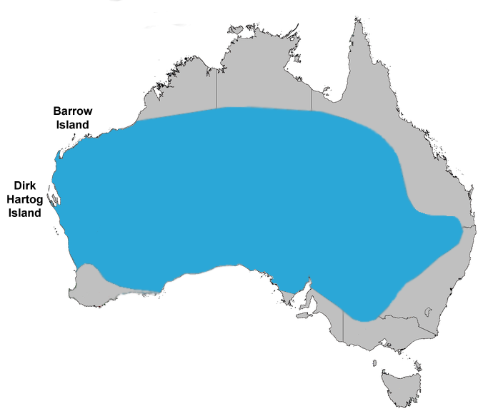 Distribution map for the White-winged Fairy-wren